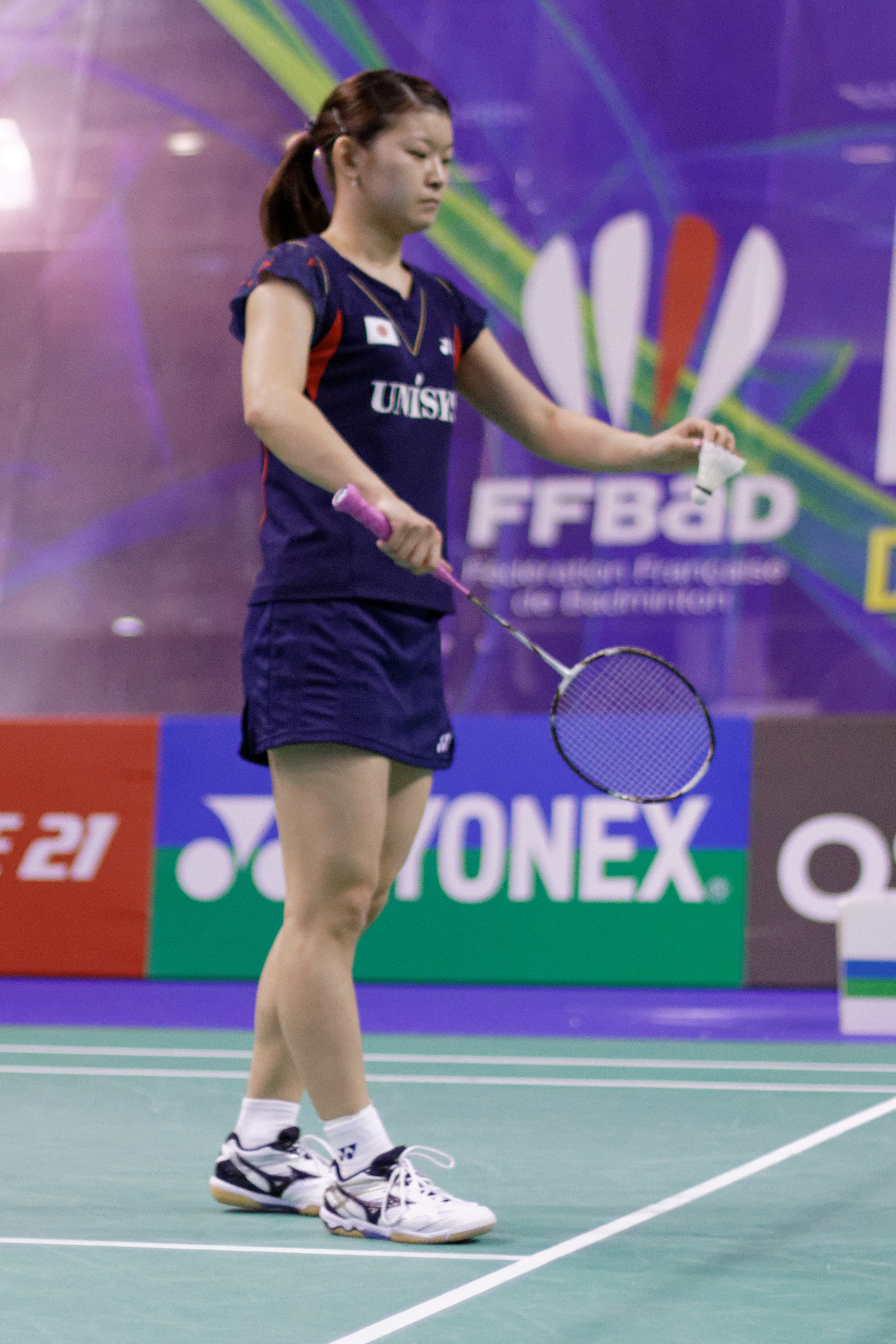 2013 French open. Women's doubles eightfinal. Gebby Ristiyani Imawan and Tiara Rosalia Nuraidah vs Misaki Matsutomo and Ayaka Takahashi.